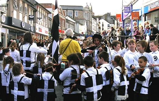 St Piran's Day